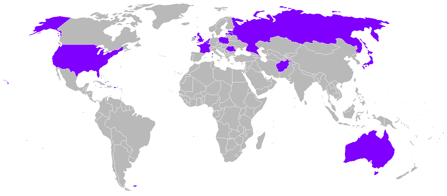 World map of Sopwith 1½ Strutter operators